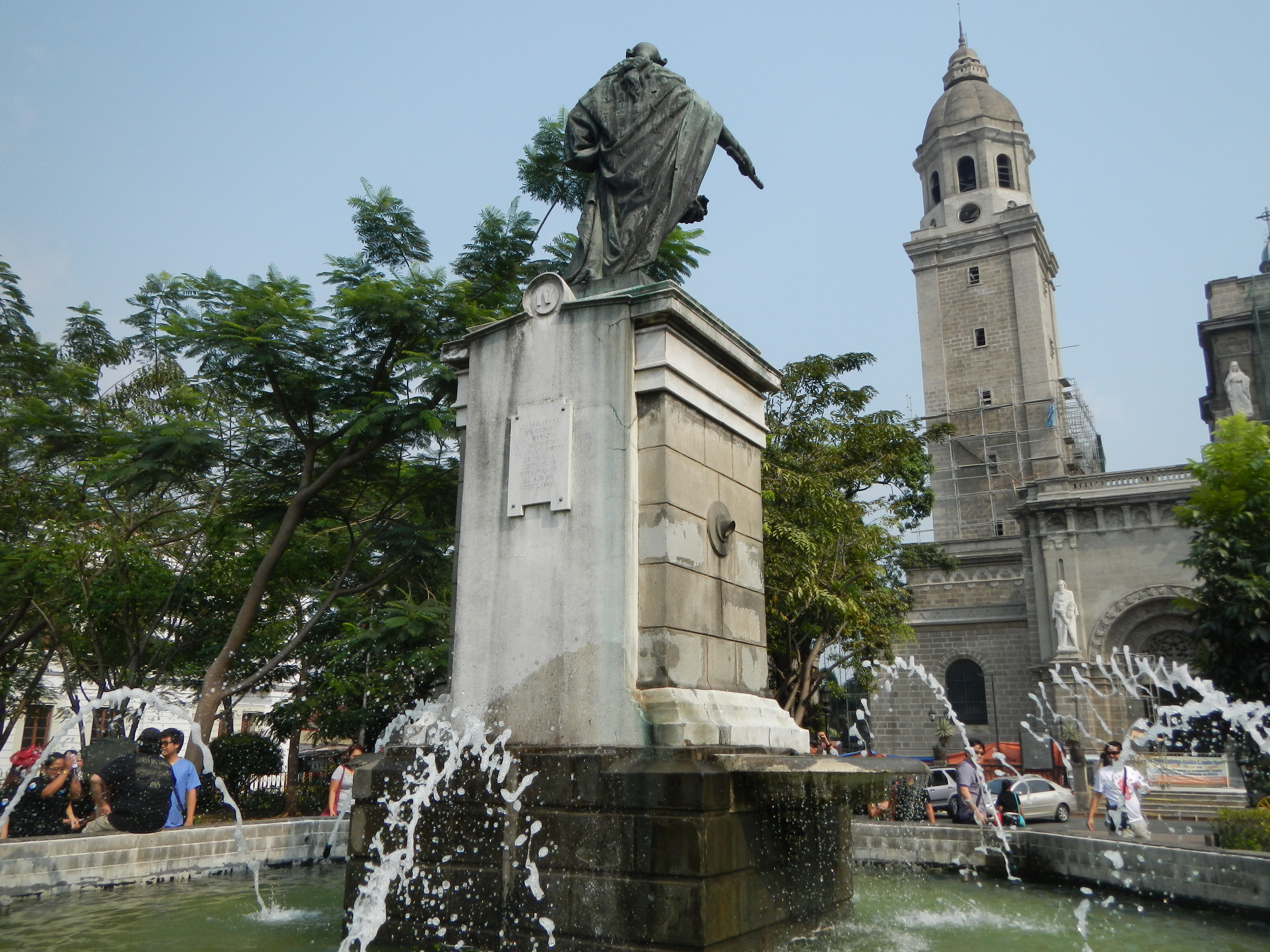 Casa Consistoriales (Ayuntamiento), Intramuros, 1735, now Bureau of Treasury (BTr), Department of Finance (Philippines) in front of the Plaza de Roma, Intramuros with King Charles IV, monument, statue, beside the Manila Cathedral near the Puerta Postigo del Palacio or Pintong Postigo, 1662.